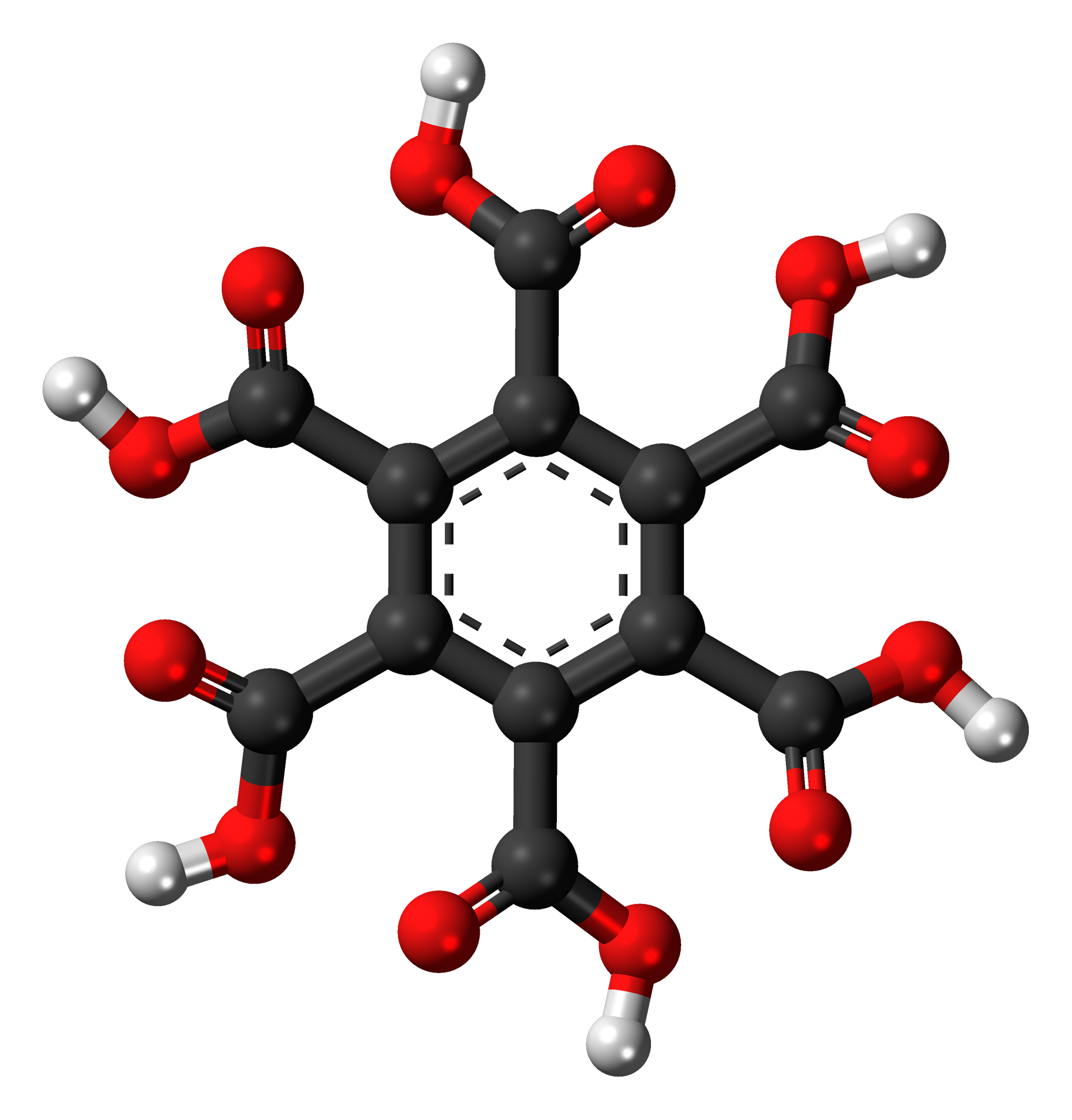 Ball-and-stick model of the mellitic acid molecule, the six-fold carboxylic acid of benzene. Also known as benzenehexacarboxylic acid. Colour code: Carbon, C: black Hydrogen, H: white Oxygen, O: red